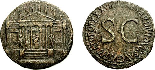 TIBERIUS. 14-37 AD. Æ Sestertius (26.44 gm, 6h). Rome mint. Struck 35-36 AD. The Temple of Concordia: Concordia seated left on throne, holding patera and sceptre, above altar within hexastyle façade set on podium; entrance flanked by statues of Hercules and Mercury; pediment decorated with statues of Jupiter, Juno, Minerva, and Victories in acroteria; wings of transverse cella with windows behind; pediments decorated with statues / Legend around large S C. RIC I 61; BMCRE 116; Cohen 69. VF, brown surfaces, a little rough. ($1000)From the Tony Hardy CollectionThe Temple of Concordia at the northern end of the Forum in Rome was unusual in that its width was greater than its length. We do not know precisely when the temple was originally built, but its unorthodox design was likely due to space limitations. The temple was restored after the revolt of the Gracchi in 121 BC, and again under Tiberius in 10 AD.